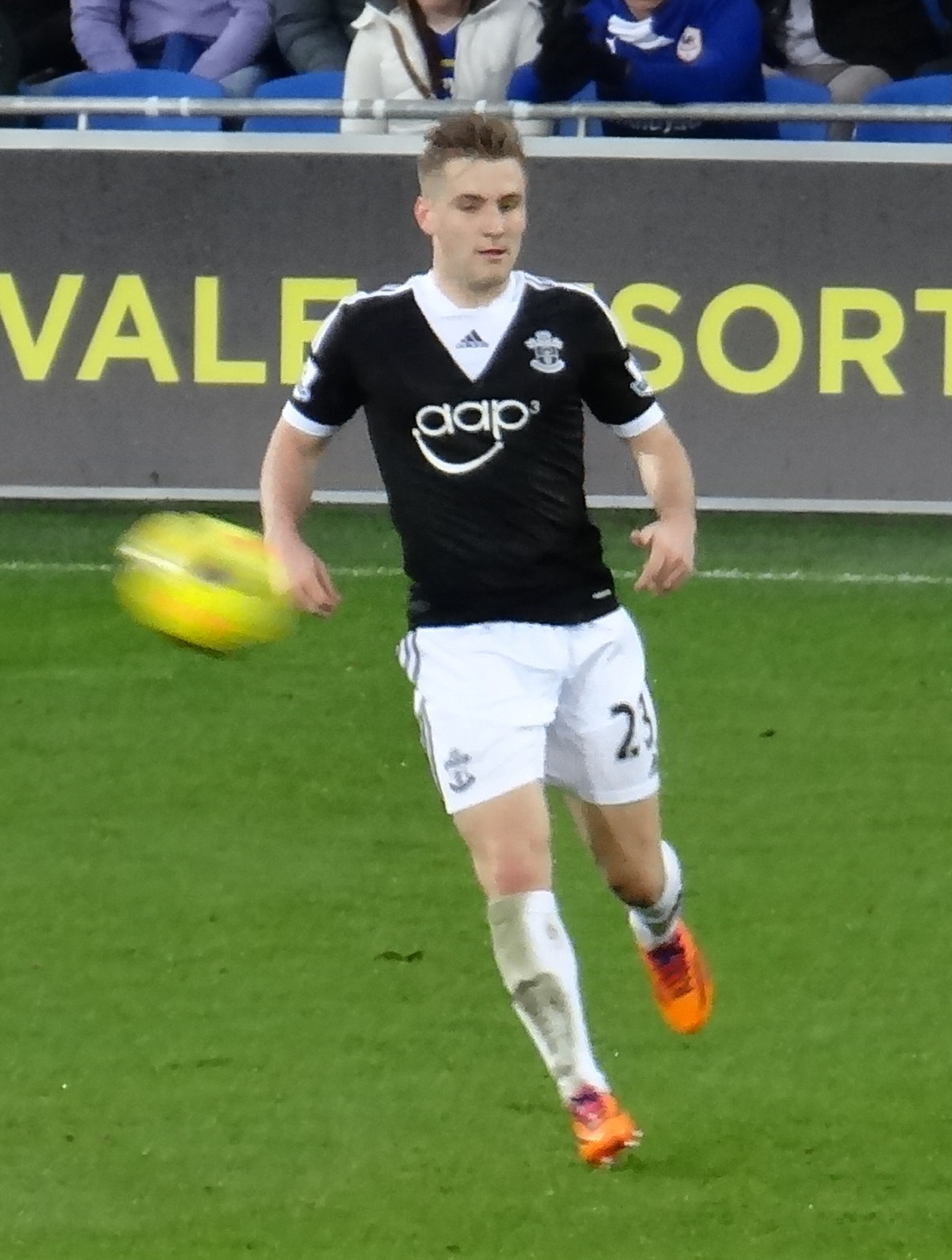 Luke Shaw playing against Cardiff City on Boxing Day in 2013.